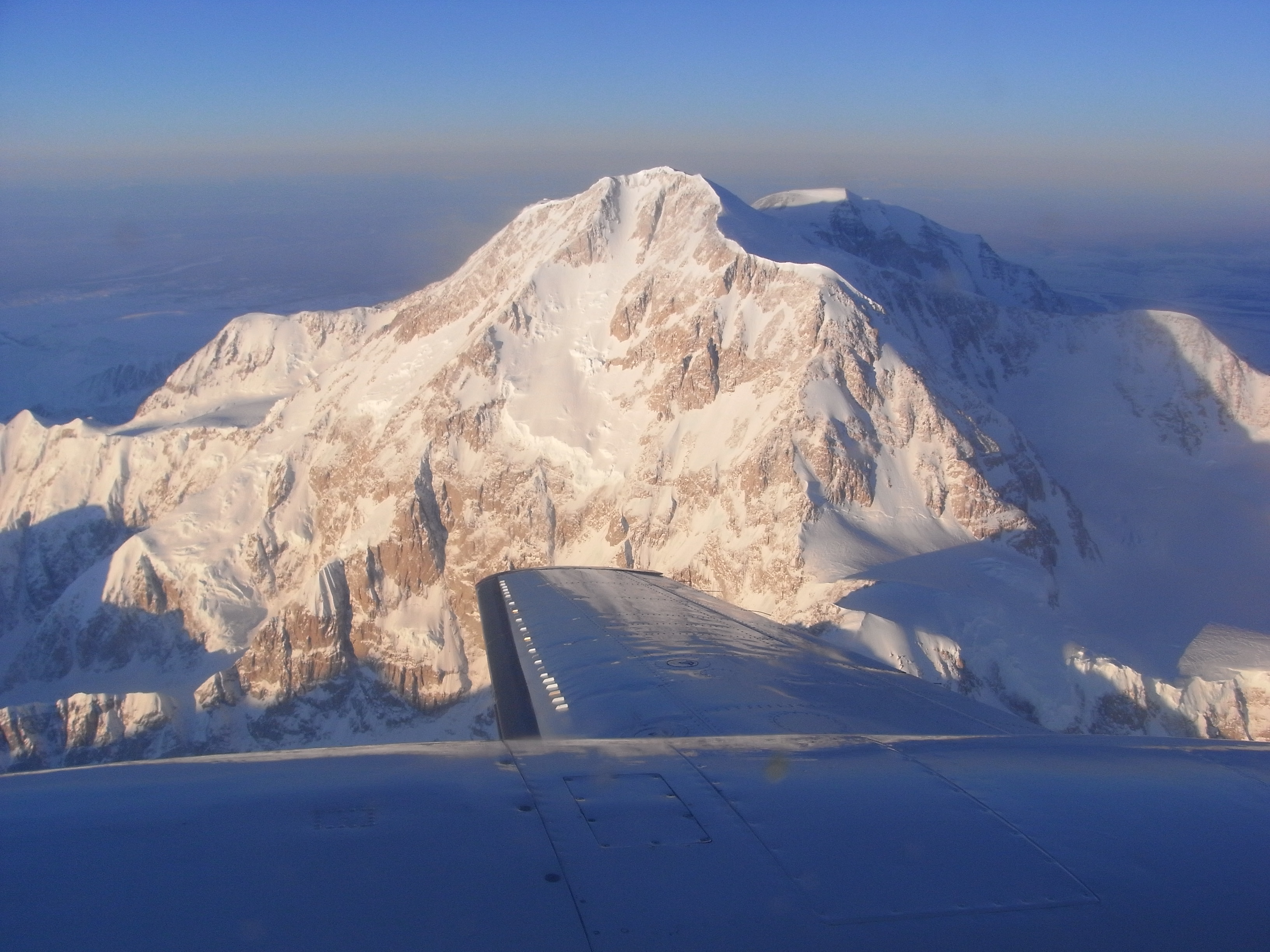 Mount McKinley - Summit Flight